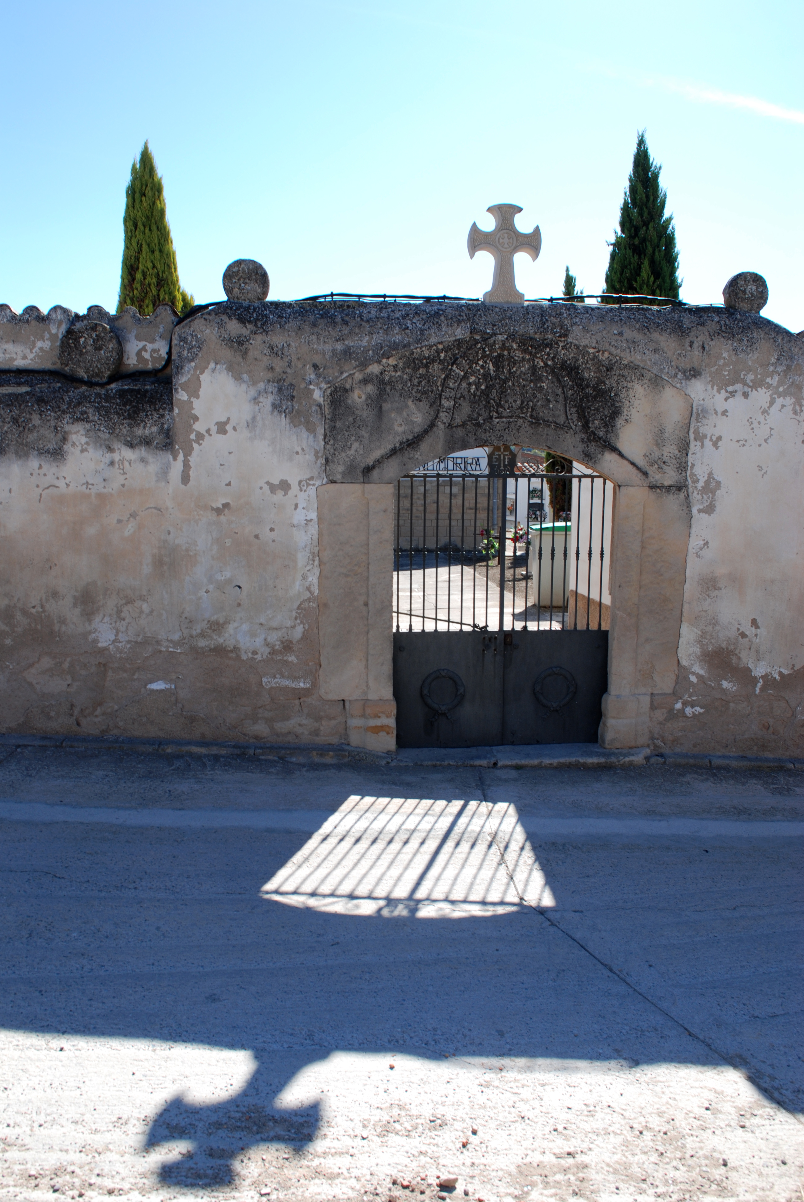 Gate of the Vinaixa cementery.